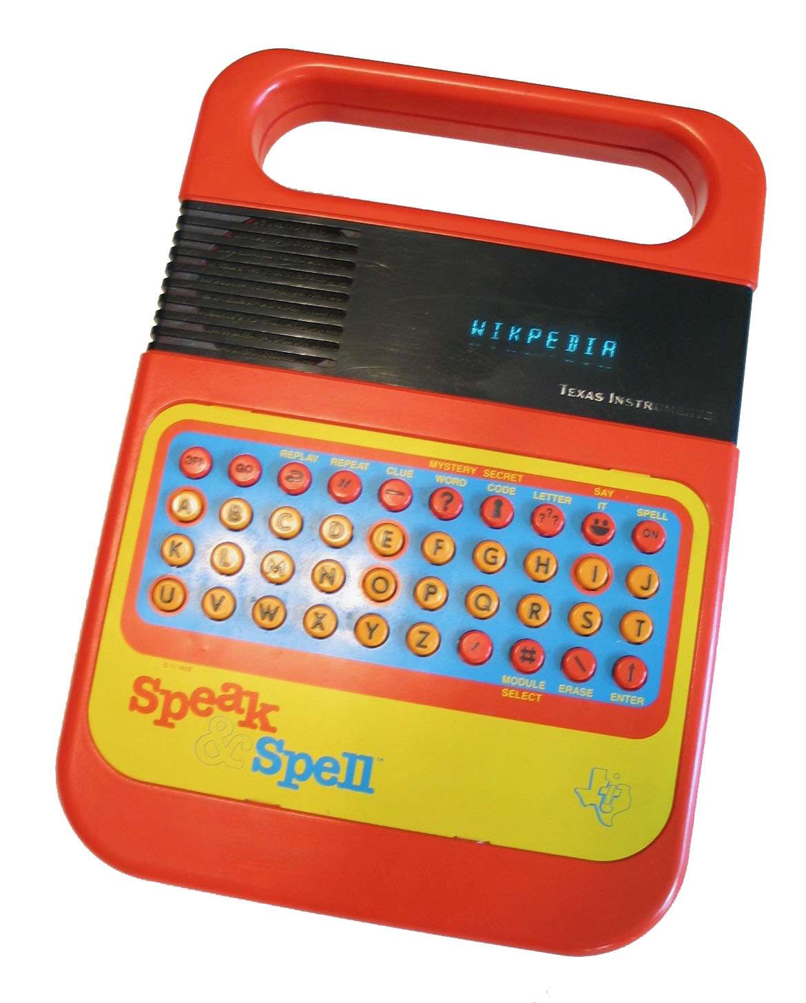 Original Speak & Spell with chiclet keys.